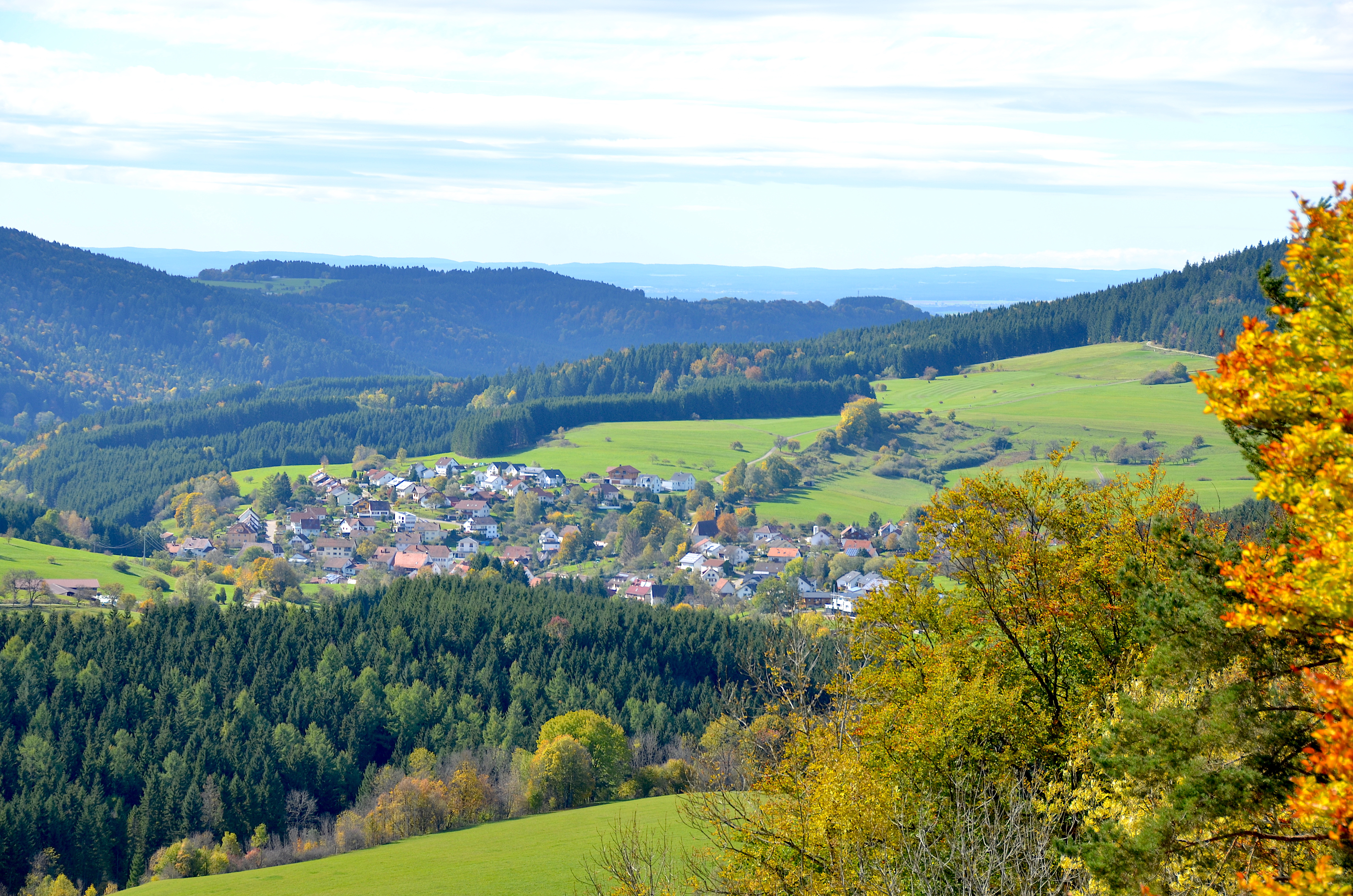 Hausen am Tann within Zollernalbkreis (2017)